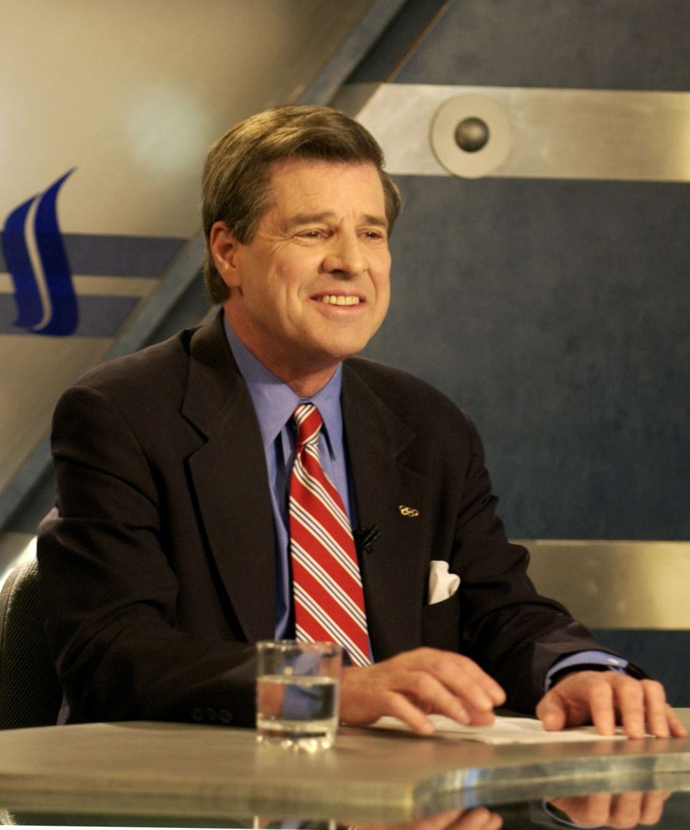 Ambassador L. Paul Bremer addresses the Iraqi people and bids them farewell on the television station Al-Iraqiwah, in Baghdad, Iraq.